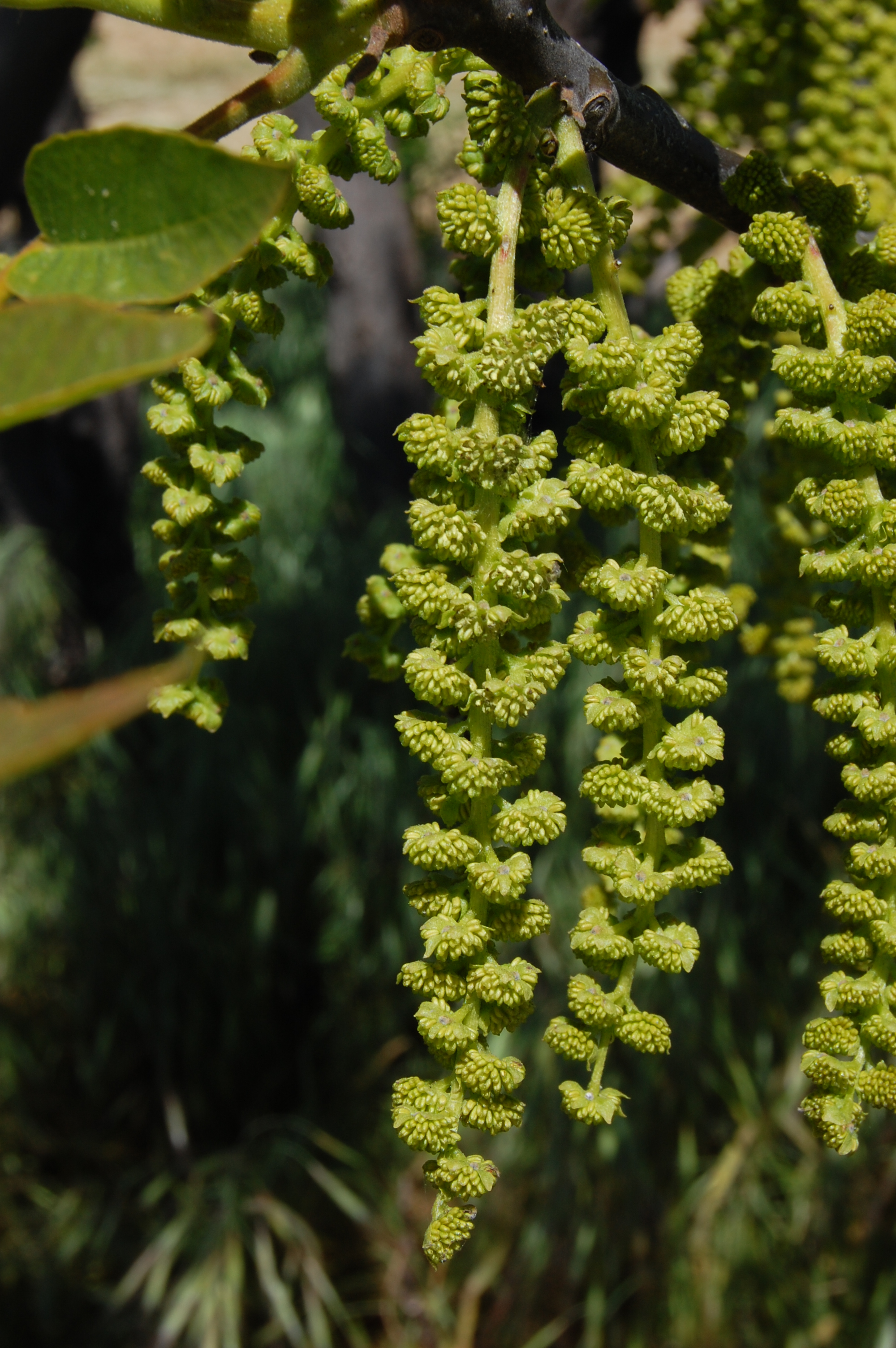 California Black Walnut